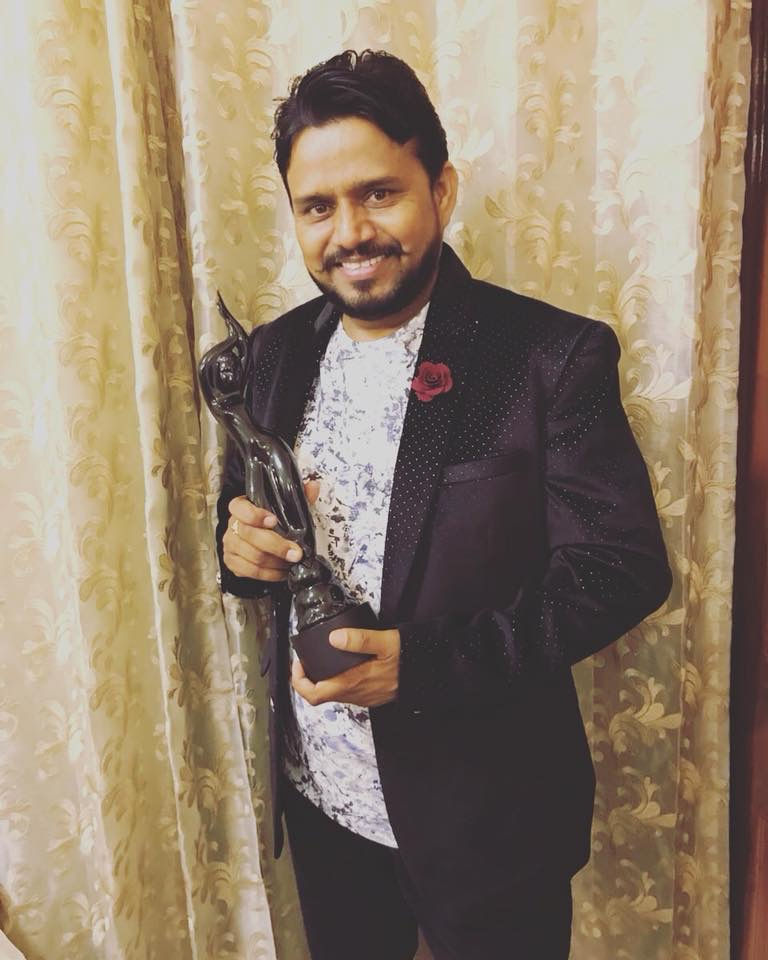 This Picture is of person whom this wikipedia page belongs to